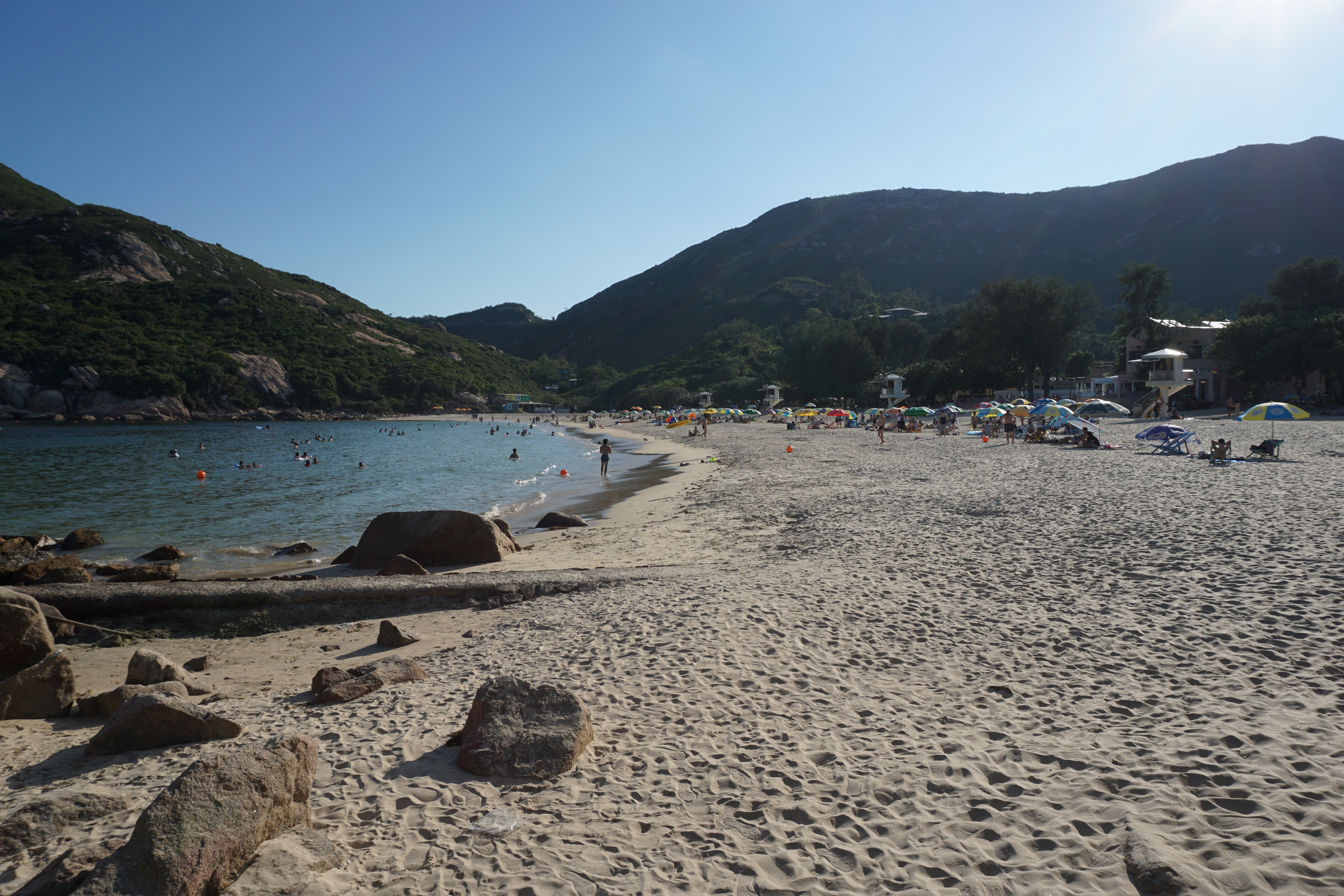 Shek O Beach in Shek O, Hong Kong.